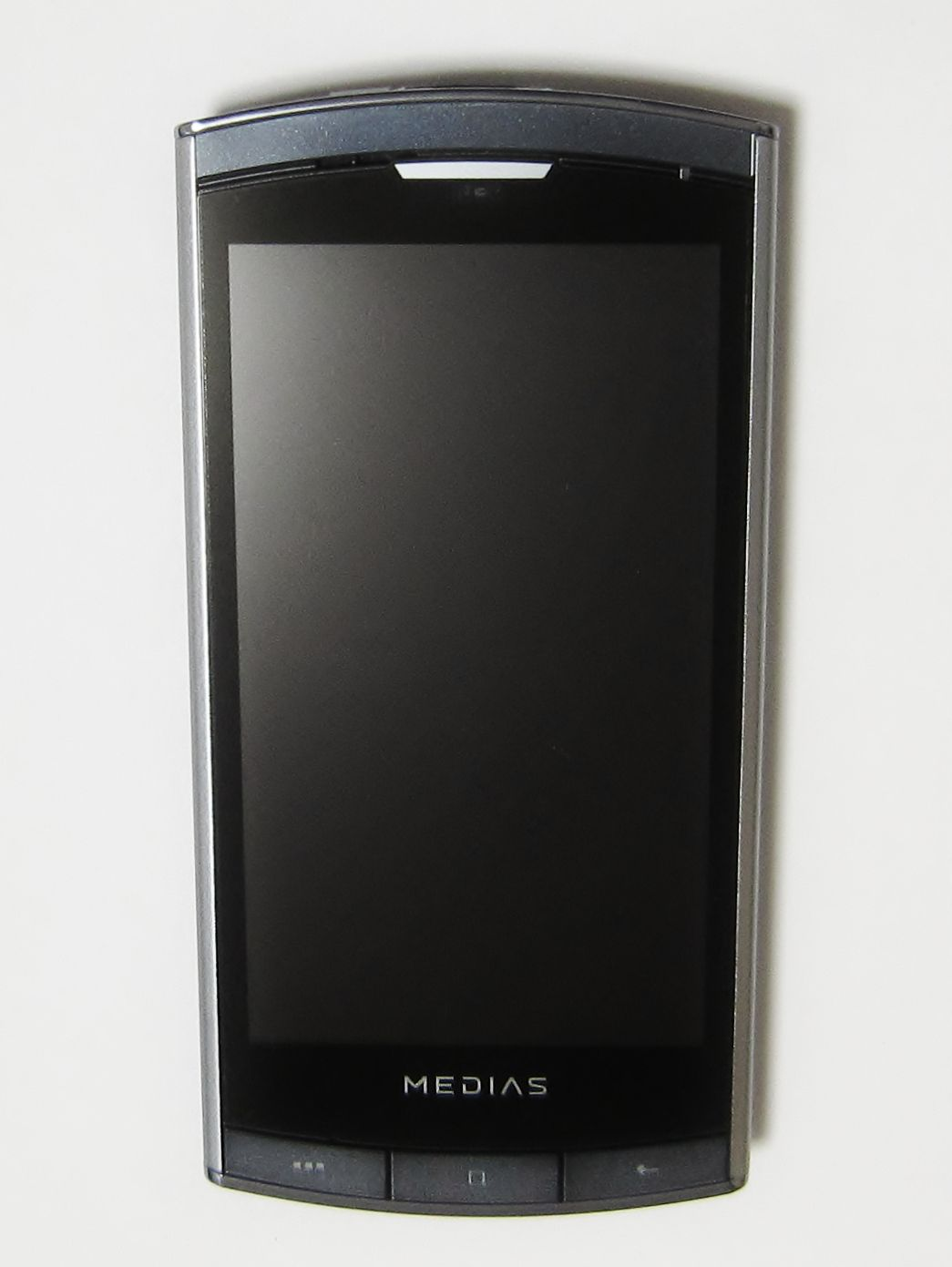 docomo Smartphone MEDIAS N-04C (by NEC Casio Mobile Communications).